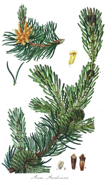 Pinus banksiana. Botanical illustration from: Description of the Genus Pinus, with directions relative to the cultivation, remarks on the uses of the several species and descriptions of many other new species of the Family of Coniferae illustrated with figures by Aylmer Bourke Lambert, Esq. London: Messrs. Weddell, MDCCCXXXII